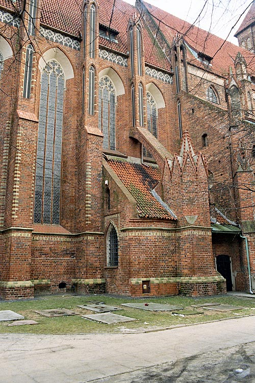 Toruń, St Jacob church, northern elevation of presbitery with sacristy and flying butress